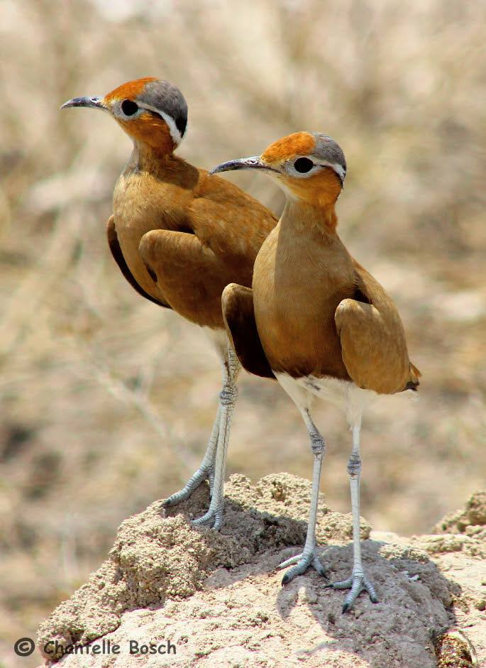 Cursorius rufus - Etosha Pan, Namibia